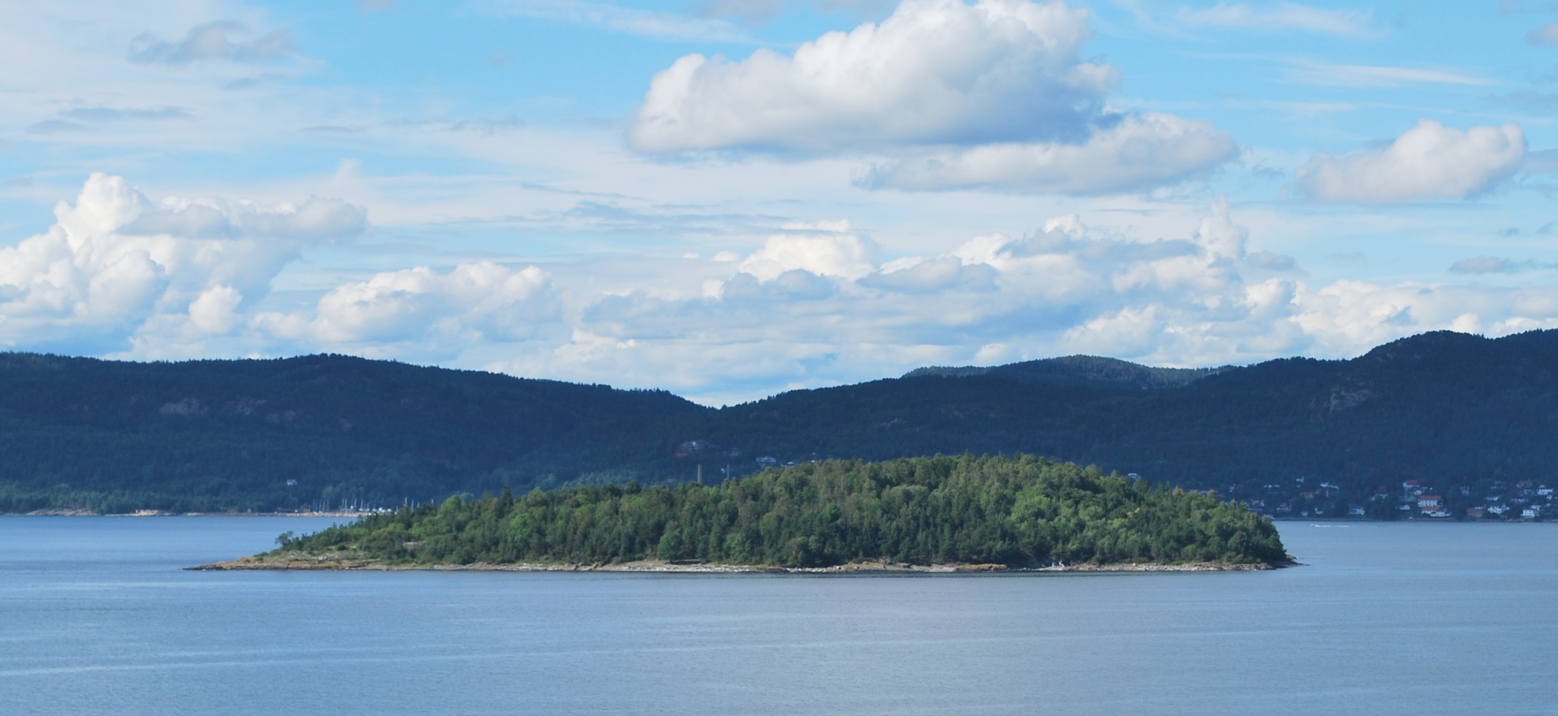 Tofteholmen, Hurum, Oslofjord, Norway